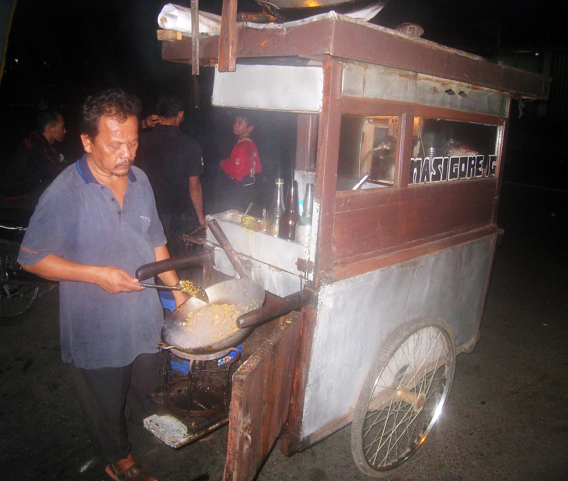 A nasi goreng vendor cooking nasi goreng in his gerobak (cart). Nasi Goreng travelling vendor often patroling residential area during night time as shown here in Rawasari, Central Jakarta, providing fast supper for hungry locals. Next to nasi goreng, mi goreng, mi rebus and kwetiau goreng are also available.